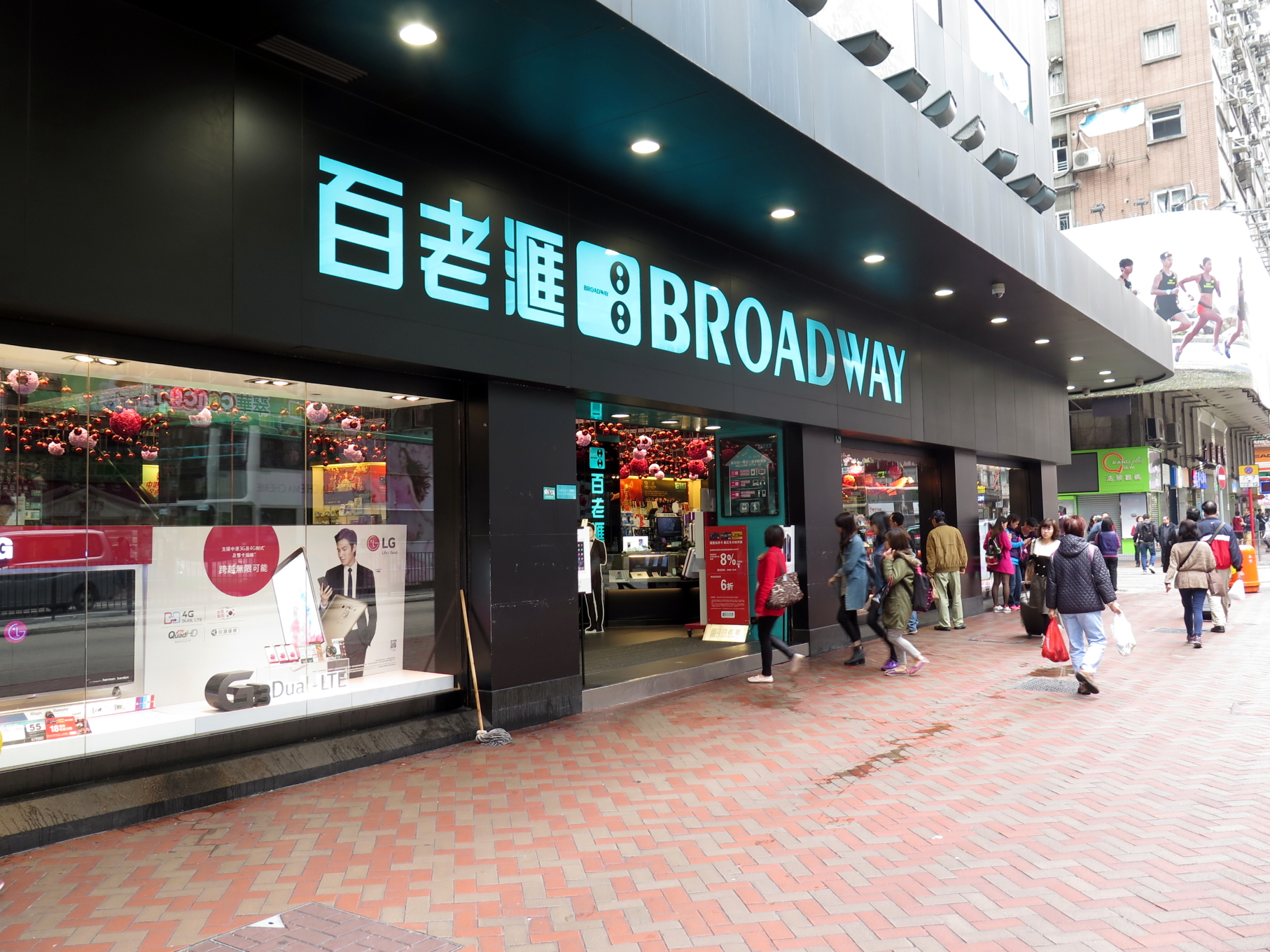 Broadway in Mong Kok Argyle Street